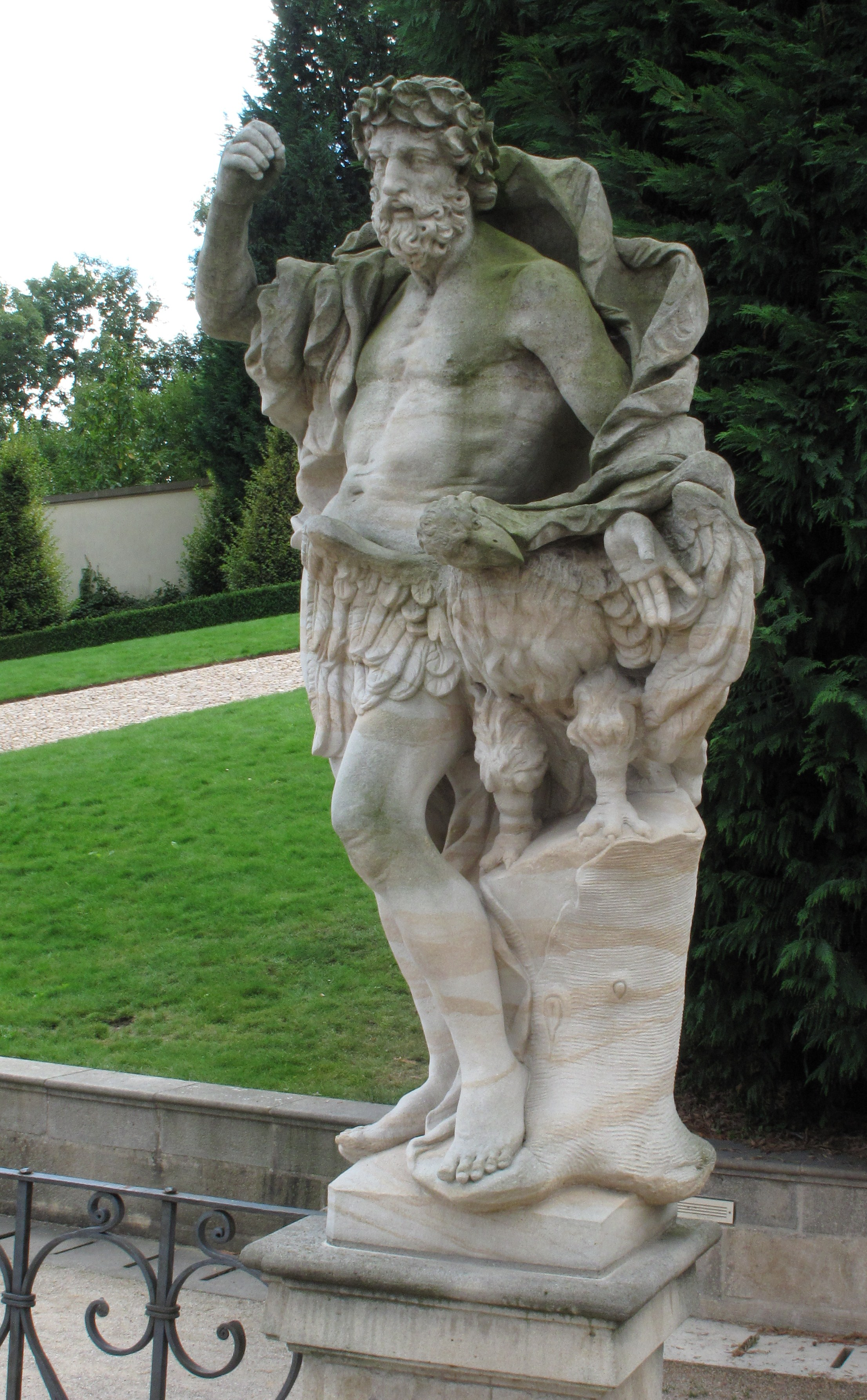 Matyáš Bernard Braun work in Vrtba Garden, Prague, Lesser Quarter, Czech Republic.